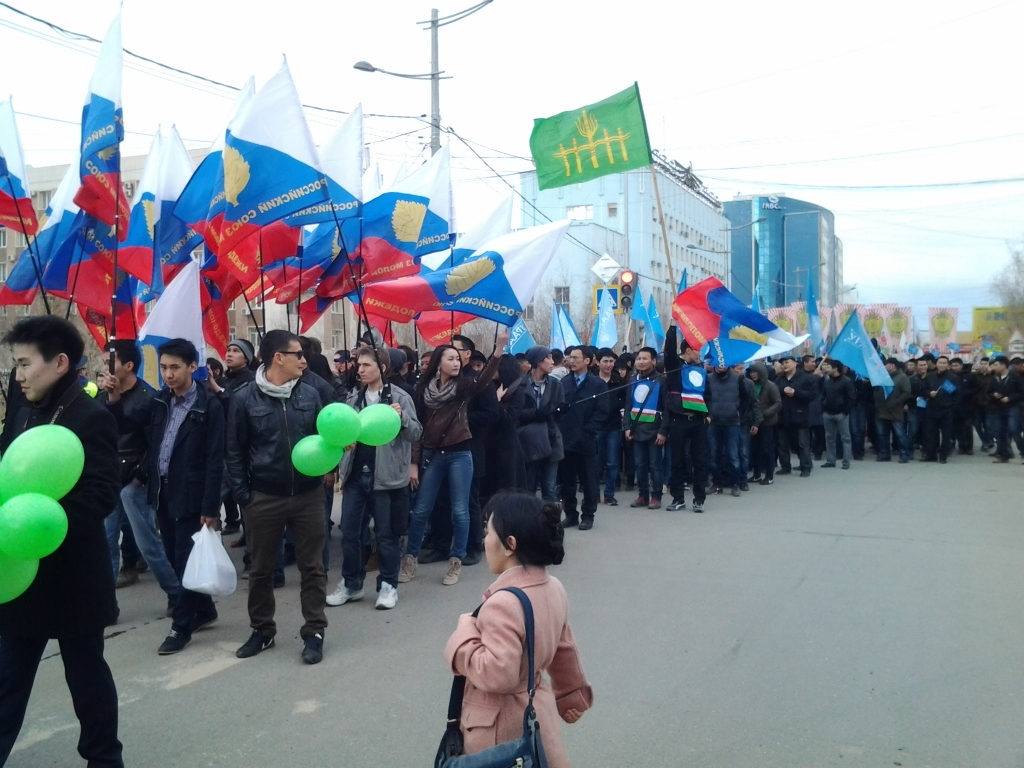 April 27, 2013. Yakutsk. Parade public, dedicated to the day of the statehood of the Republic.